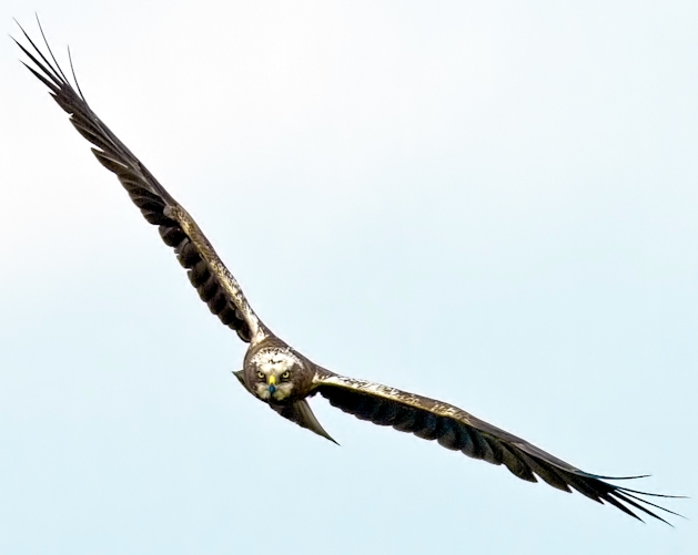 Western Marsh Harrier (Circus aeruginosus), Torrenostra, May 6th, 2011